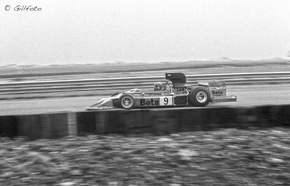 Vittorio Brambilla